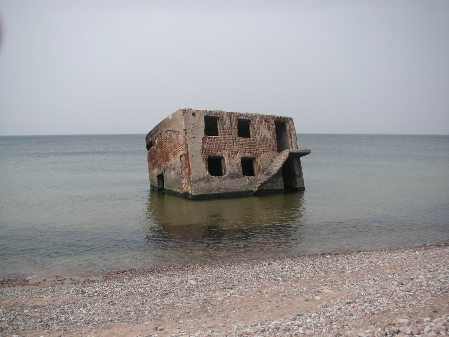 Karosta's shores are littered with abandoned fortifications from Tsarist Russia Photograph by C.B.Doak.